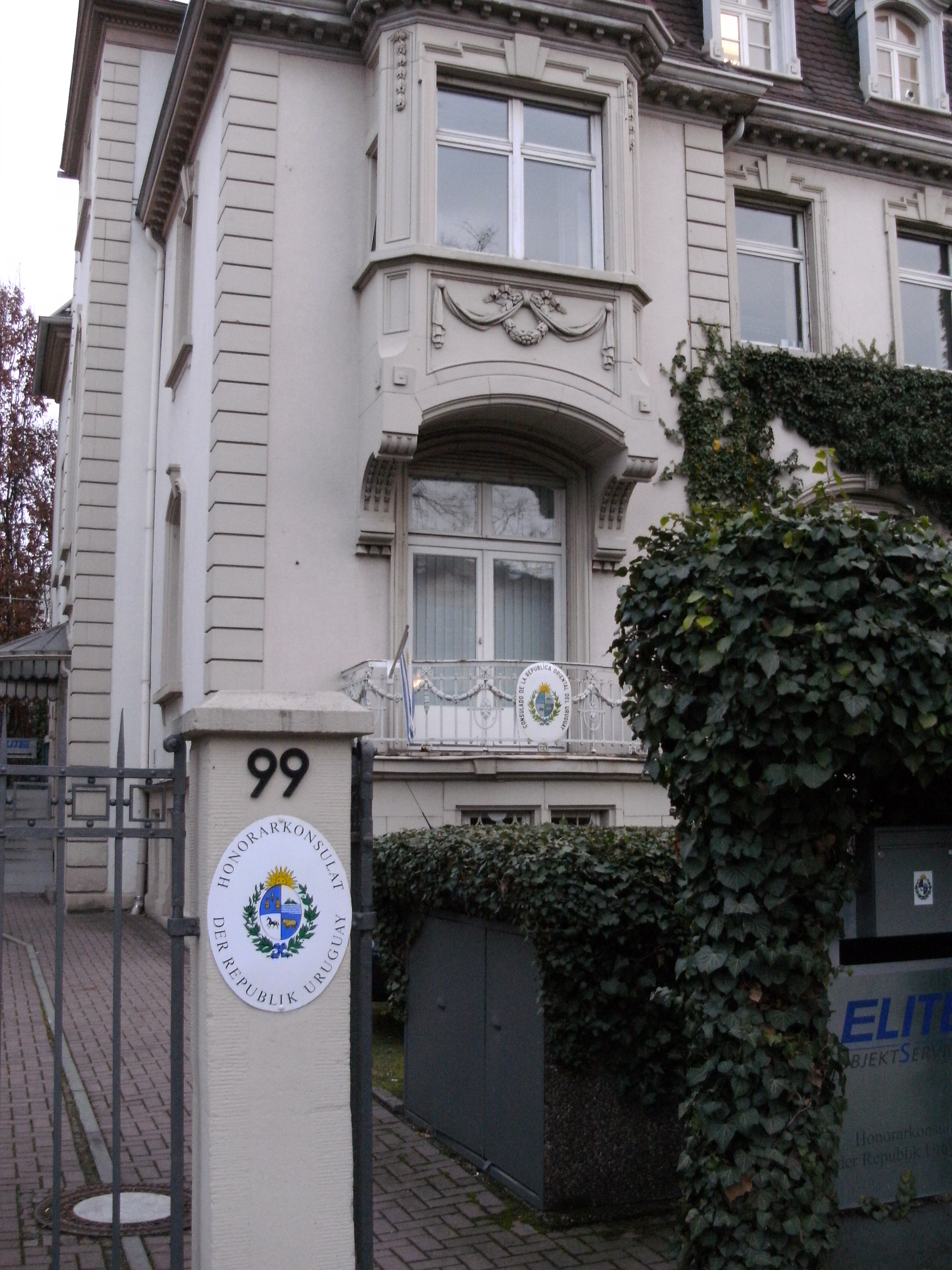 Honorary Consulate of Uruguay at Frankfurt/Main, Kennedyallee 99